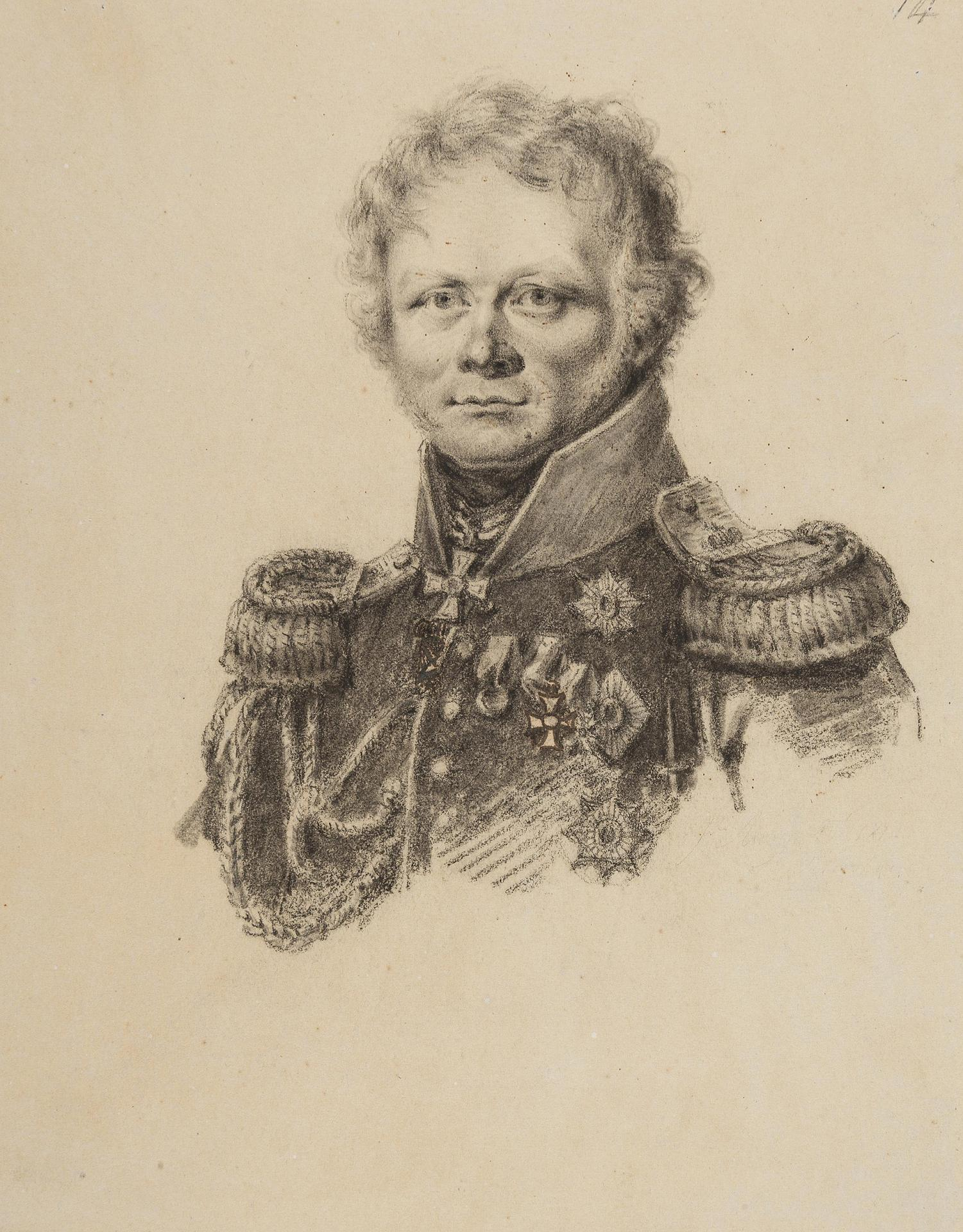 Portrait of the General of the Cavalry, Baron Wintzingerode